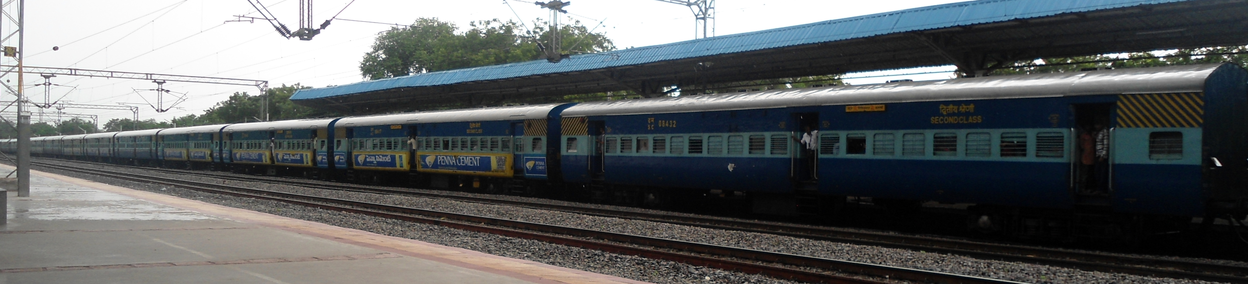 17202 Guntur bound Golconda Express enters Aler Railway station